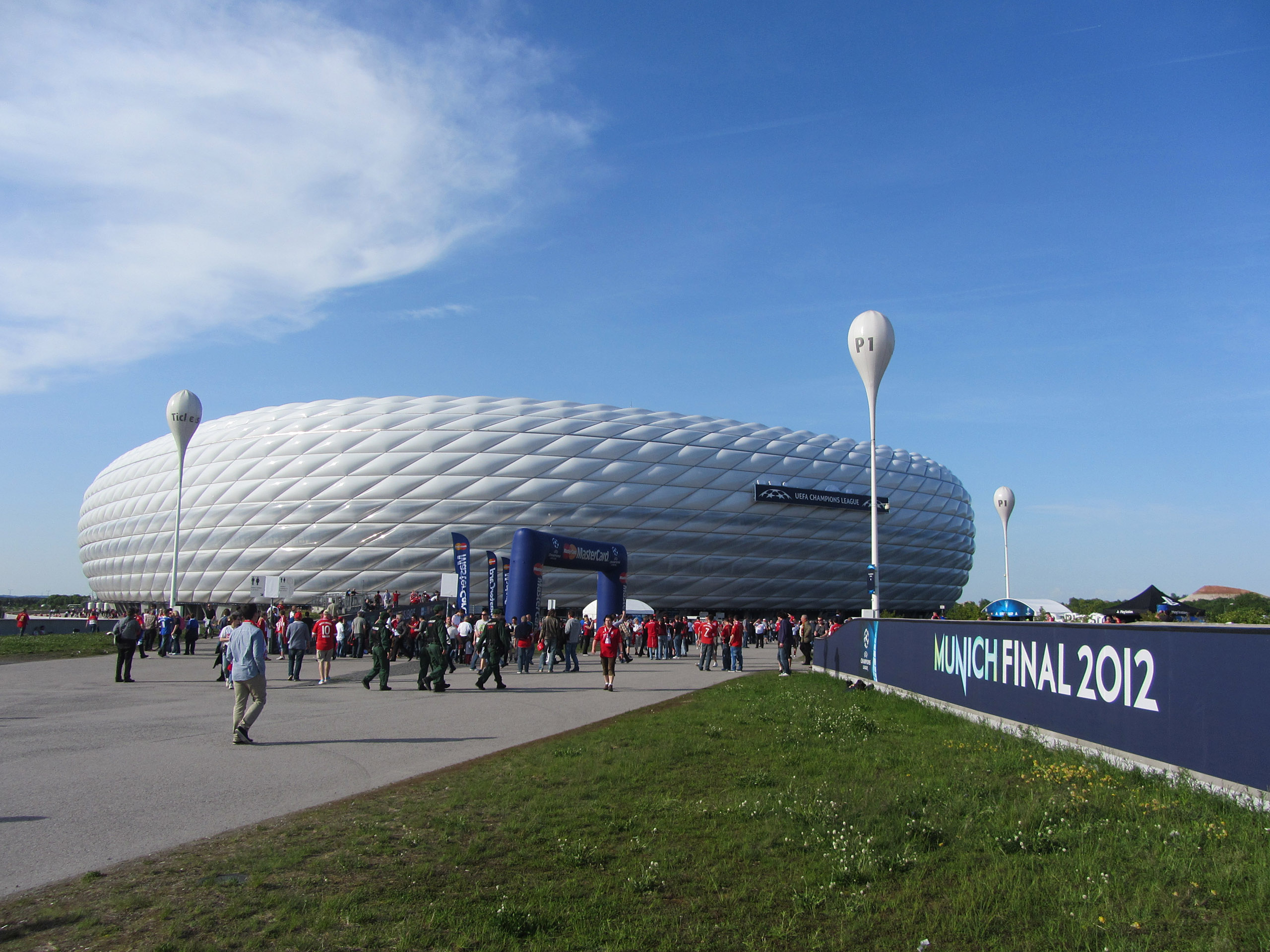 Bayern München - Chelsea FC 19.05.2012 Champions League Finale 2012 / "Finale Dahoam" Arena vor dem Spiel Champions League Final 2012 Pre-match arena